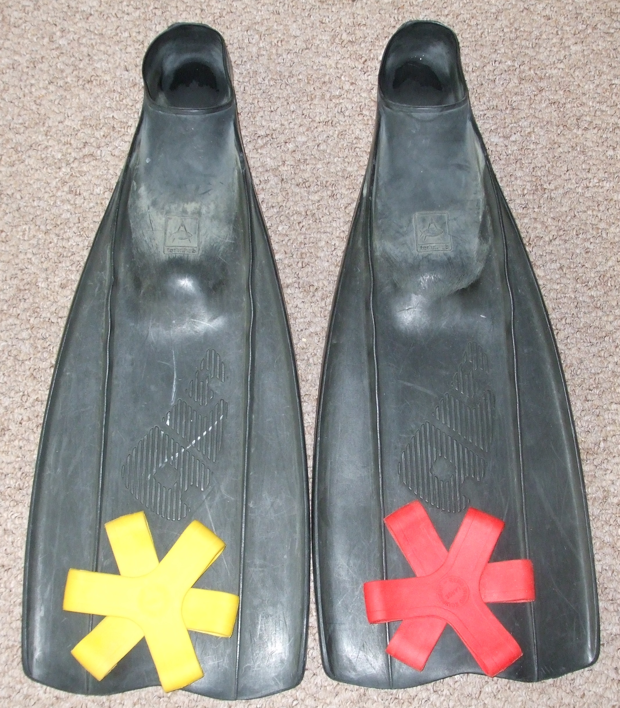 A pair of Italian Technisub Ala swimming fins is displayed in this image. Yellow and red pairs of South African Zero Diving fin grips used to secure the fins are exhibited towards the tips of the fin blades. Historically, Technisub Ala full-foot swimming fins have enjoyed an almost iconic international status as underwater hockey fins. Used to retain full-foot fins on the feet in choppy waters, the yellow and red South African fin grips have become equally coveted underwater hockey accessories because of the visual contrast they make against the colour of the fins. Neither Technisub Ala fins nor Zero Diving coloured fin grips are in current production.